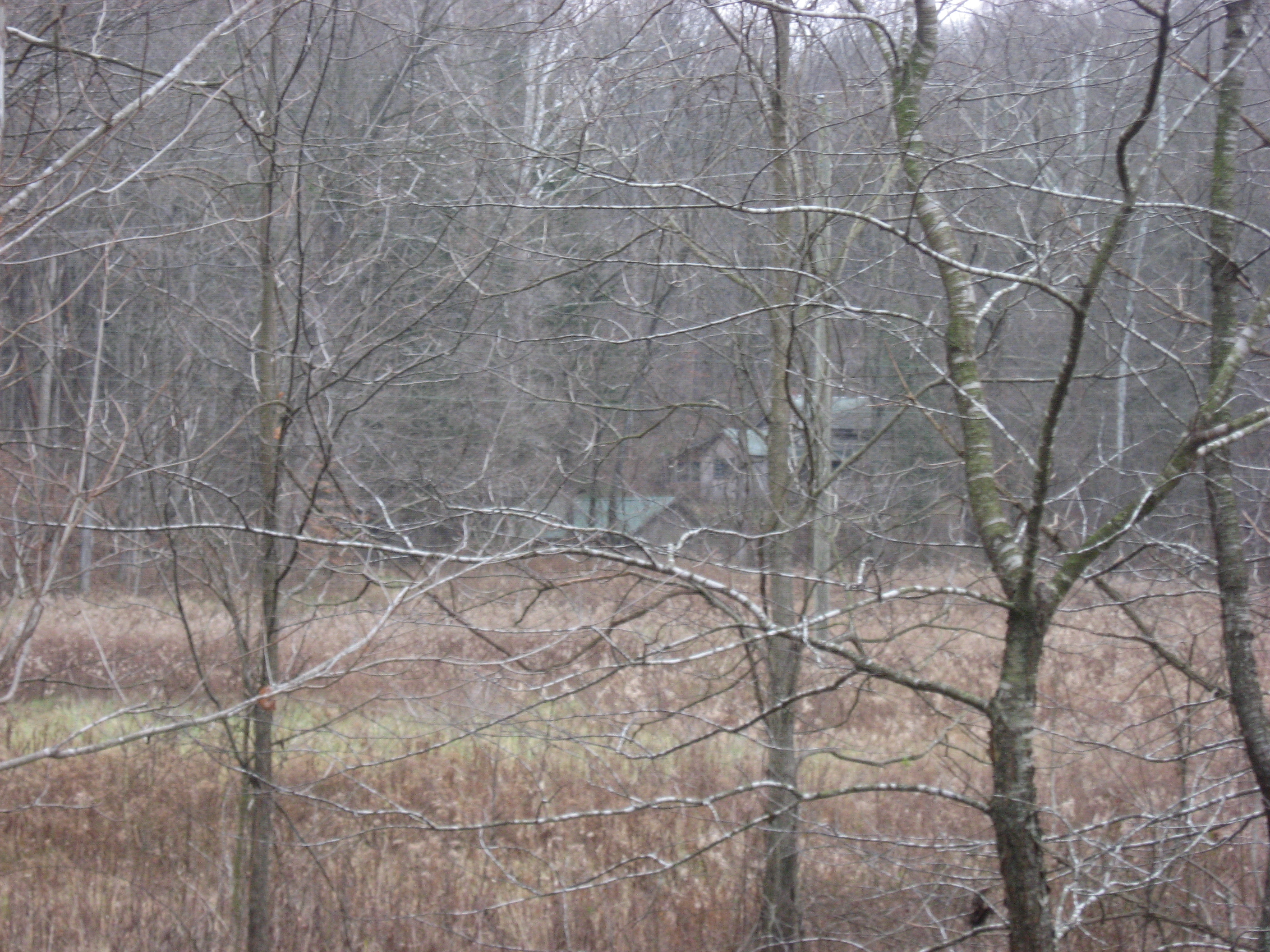 View through the trees of the fields at Elm Spring Farm, located off the western side of Goose Creek Road northwest of Martinsville in Jefferson Township, Morgan County, Indiana, United States. A better picture cannot be obtained, due to the farm's highly secluded location and the owner's prominent "No Trespassing" signs. The farm complex is listed on the National Register of Historic Places.